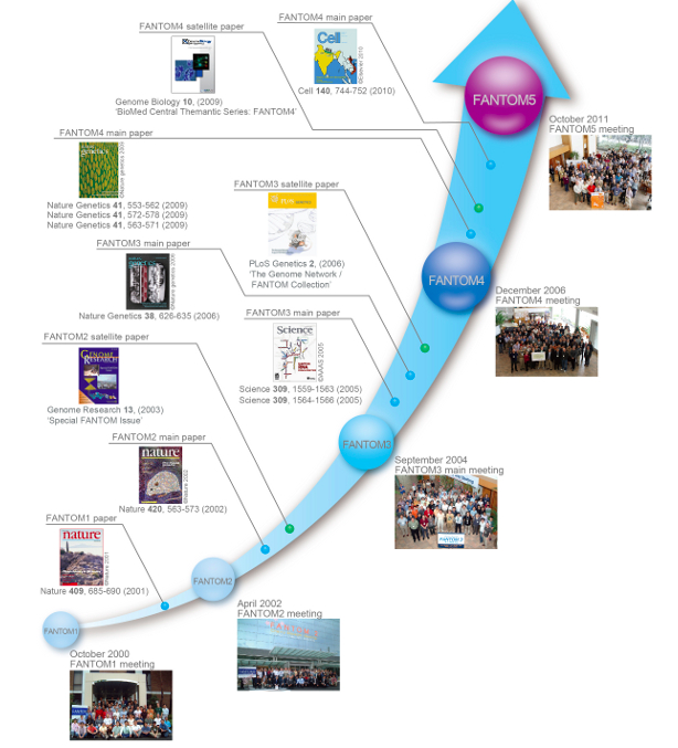 This RIKEN timeline shows the FANTOM meetings, beginning in October 2000 with FANTOM1, and ending with FANTOM5 in October 2011, and their corresponding main and satellite publications.